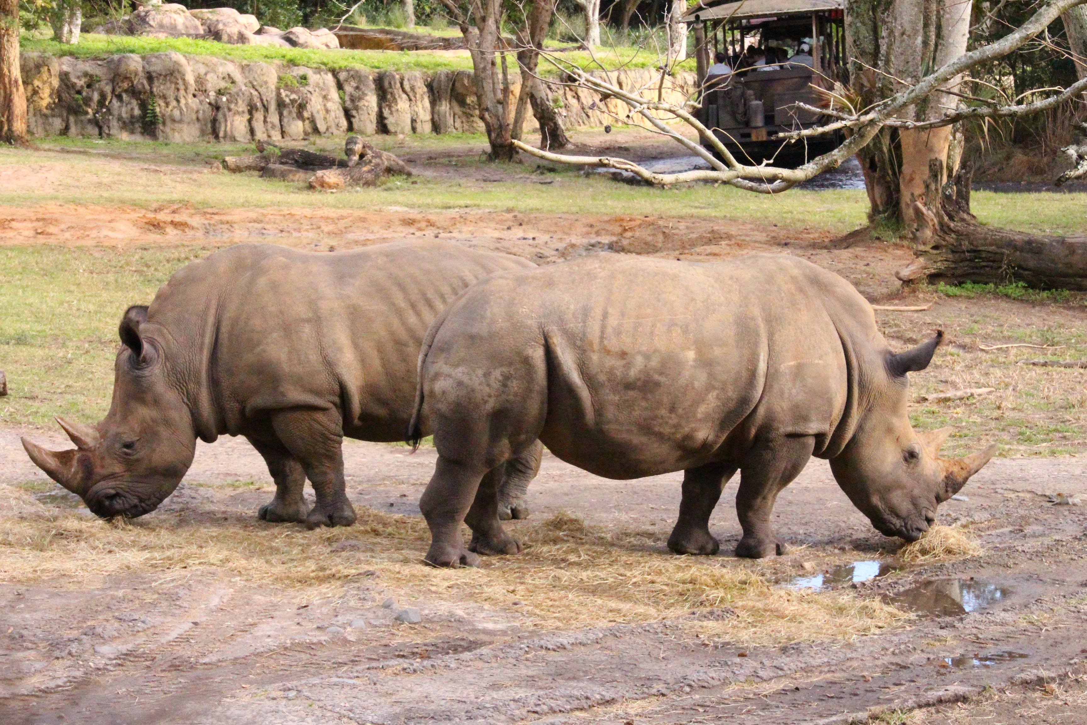 A pair of Rhinoceroses at the Kilimanjaro Safaris at Disney's Animal Kingdom in Orlando, Florida.